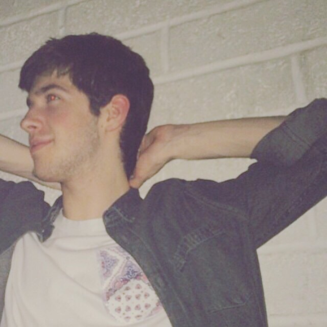 Profile icon of popular Tumblr user David Olshanetsky, also known as TheShitneySpears.